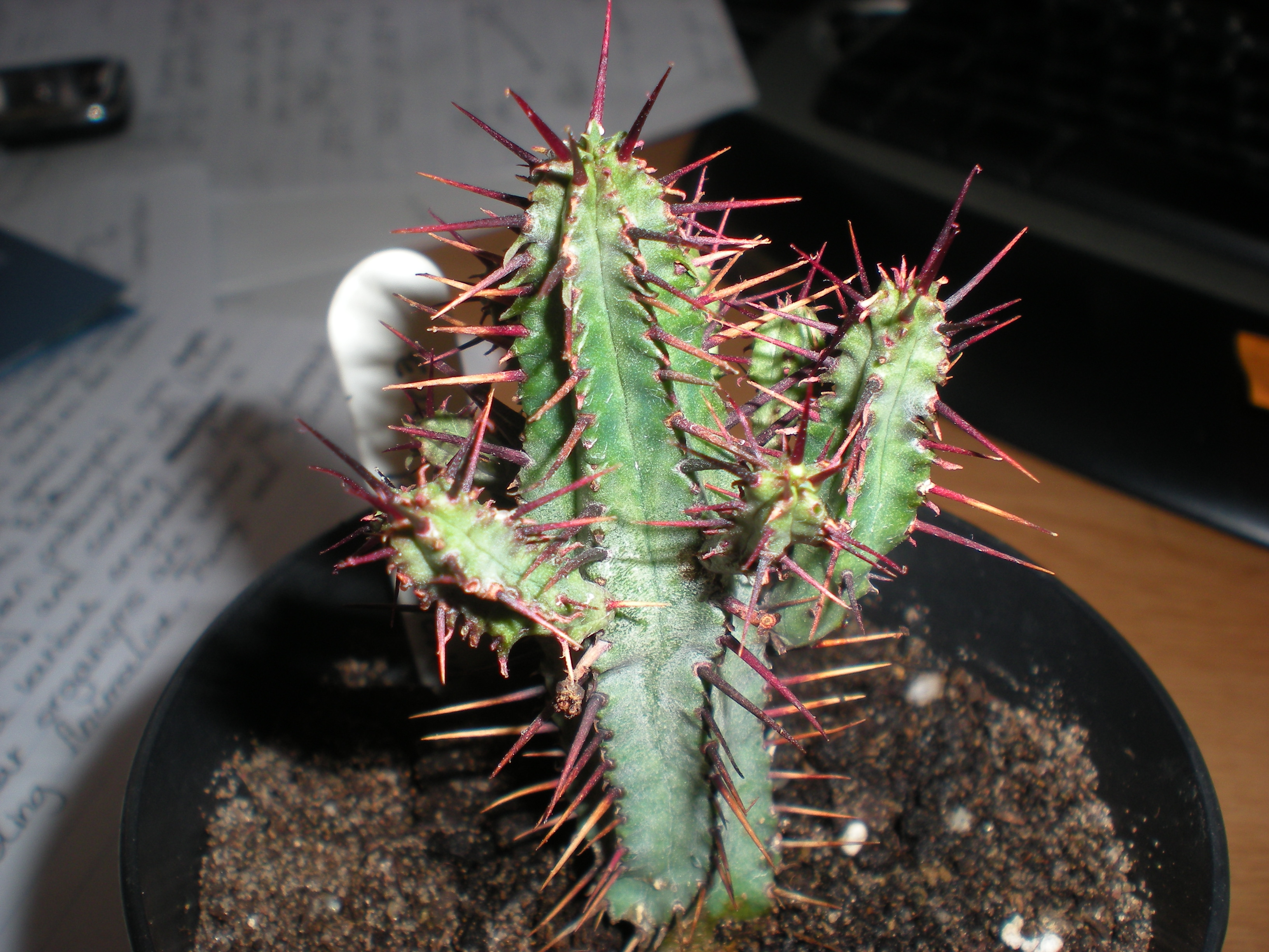 A Euphorbia Pentagona in possession of Rombethor.